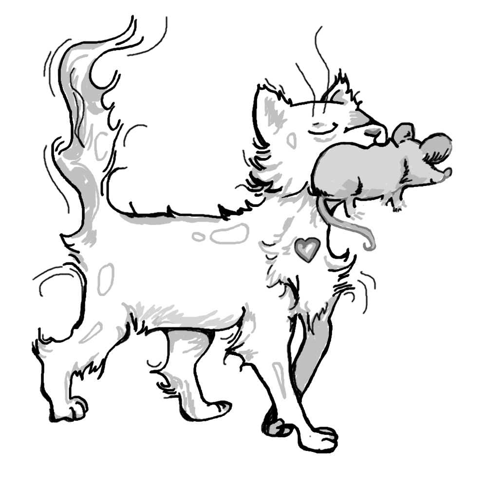 The glass cat of Oz carrying a mouse in her mouth.